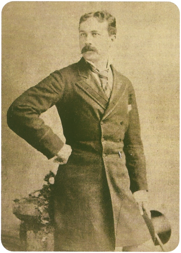 Joaquim Nabuco, 1878.